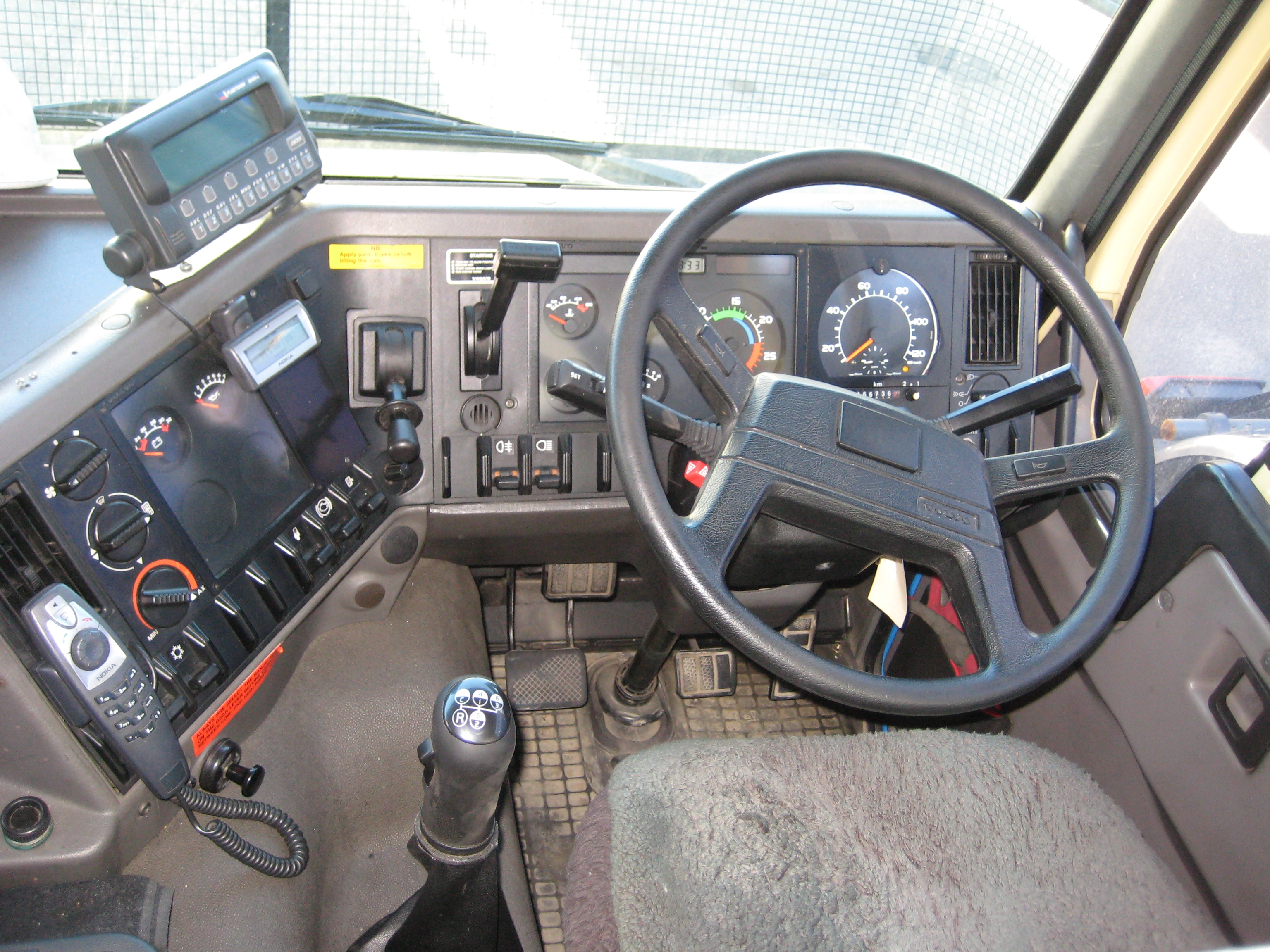 Interior of Volvo FL12 left hand drive truck